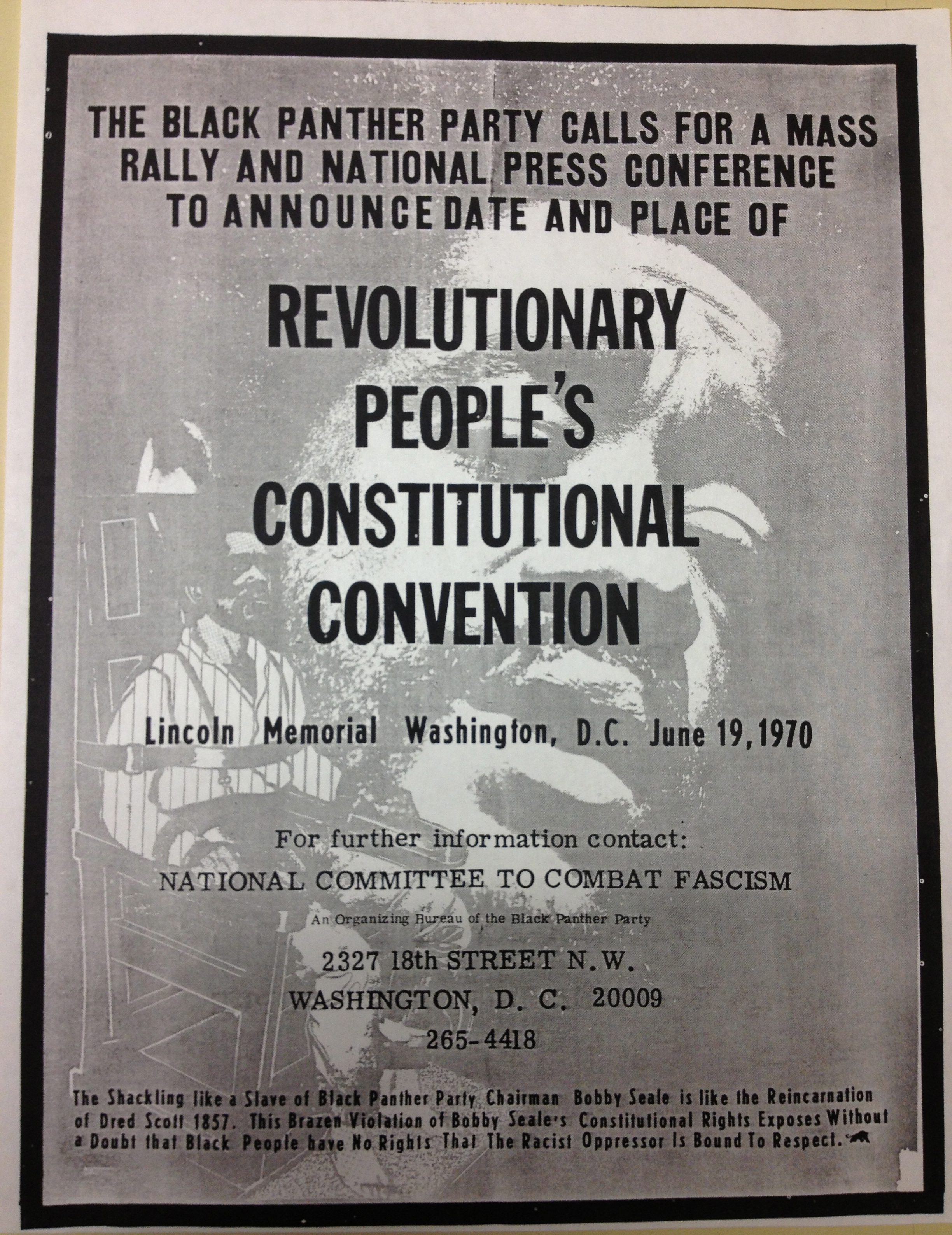 Flyer for a Black Panther Rally, to be held June 19, 1970, Revolutionary People's Constitutional Convention, at the Lincoln Memorial, Washington, D.C.